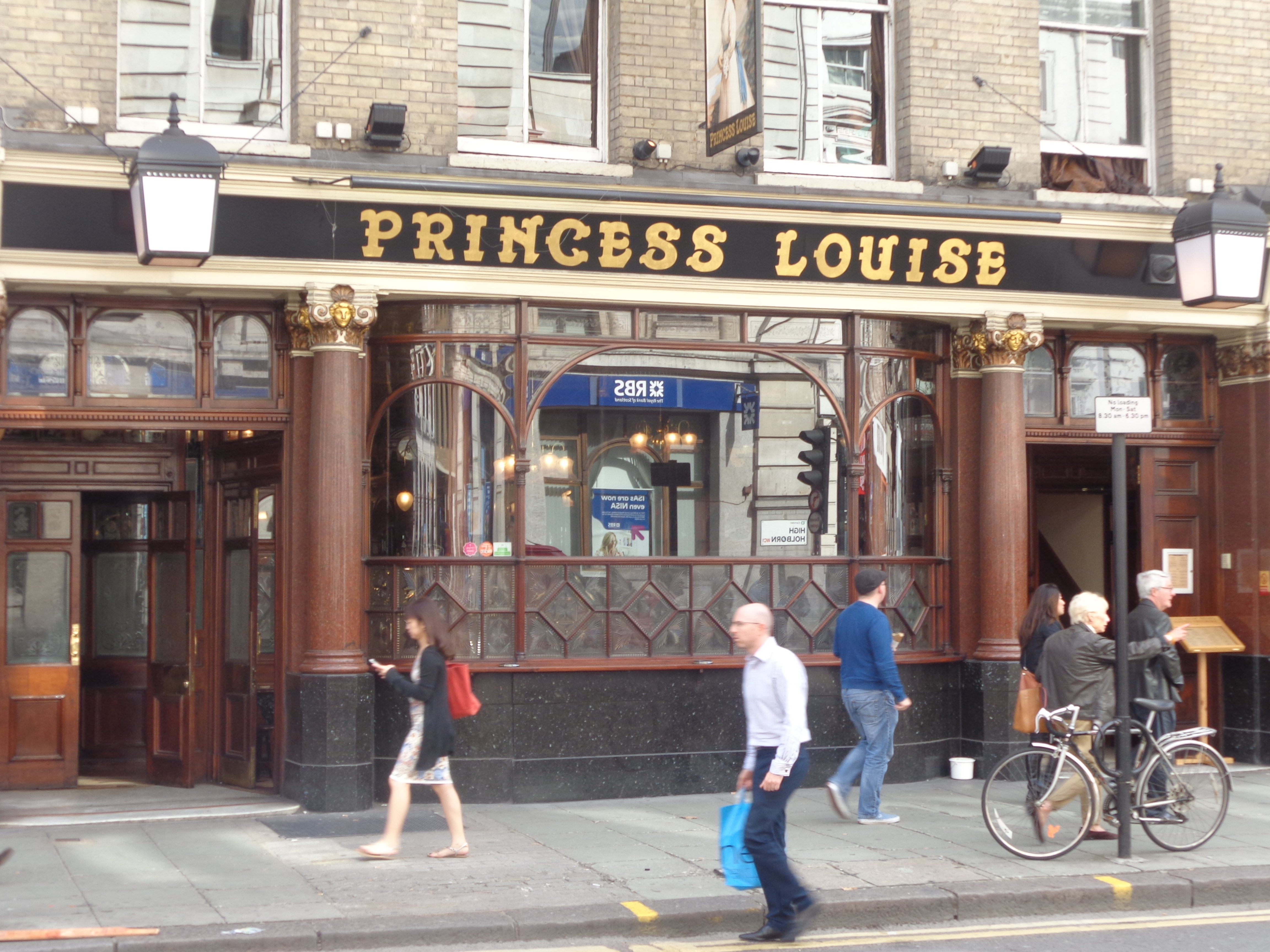 Princess Louise, High Holborn, London Borough of Camden. Taken on the afternoon of Thursday the 25th of September 2014.